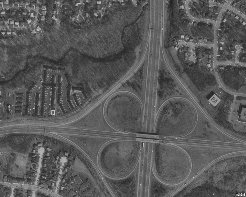 Aerial image of the old cloverleaf interchange between I-270 and OH 161 on the east side of Columbus, Ohio, dating from March 18, 1995.